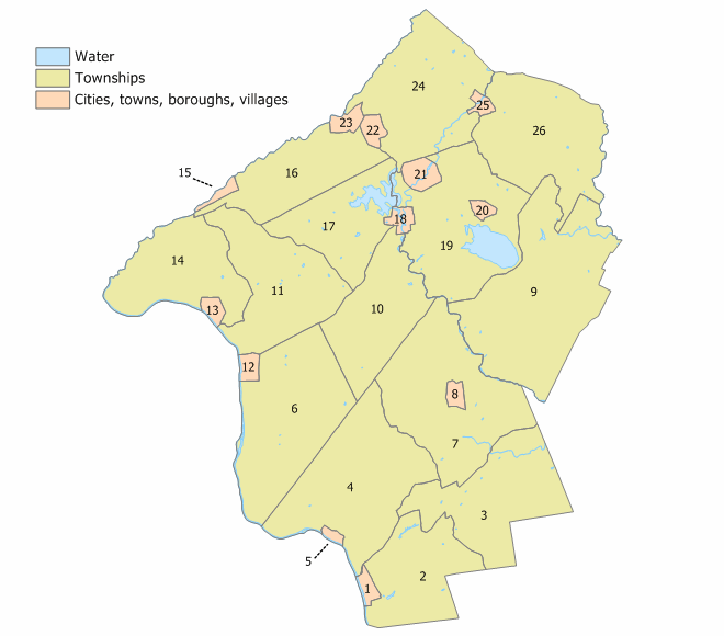 Hunterdon County, New Jersey Municipalities